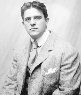 Half-length portrait of W. W. Coe, University of Michigan and Olympic athlete, sitting in a stairwell hallway at the Chicago Daily News building in Chicago, Illinois.